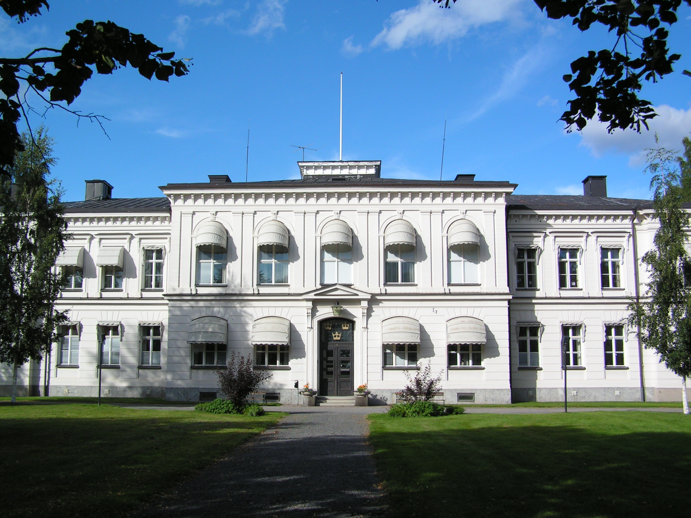 Court of Appeal for Northern Norrland, Umeå, Sweden